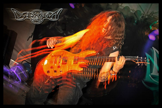 Darksun guitar